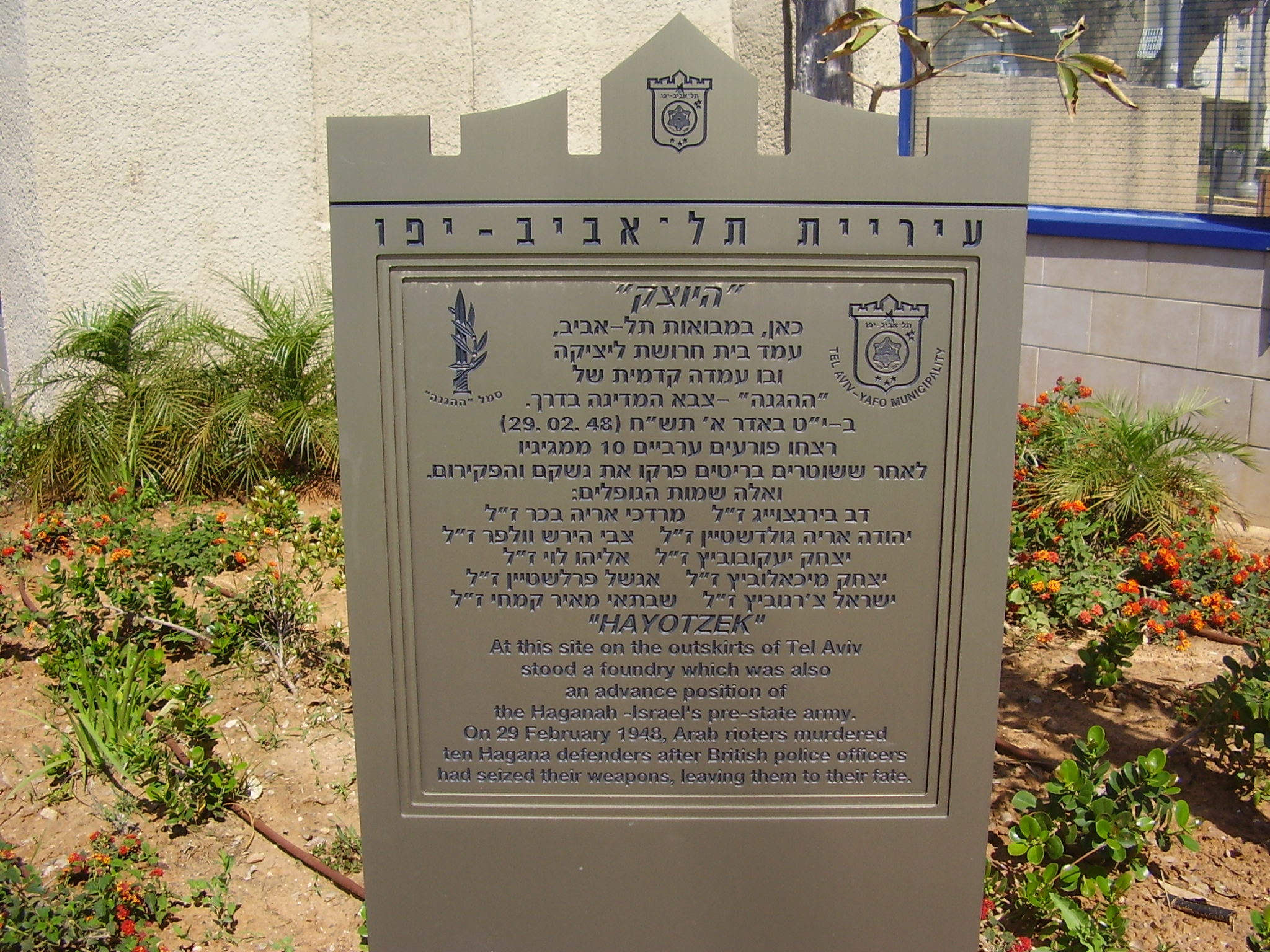 hayotzek memorial in tel aviv